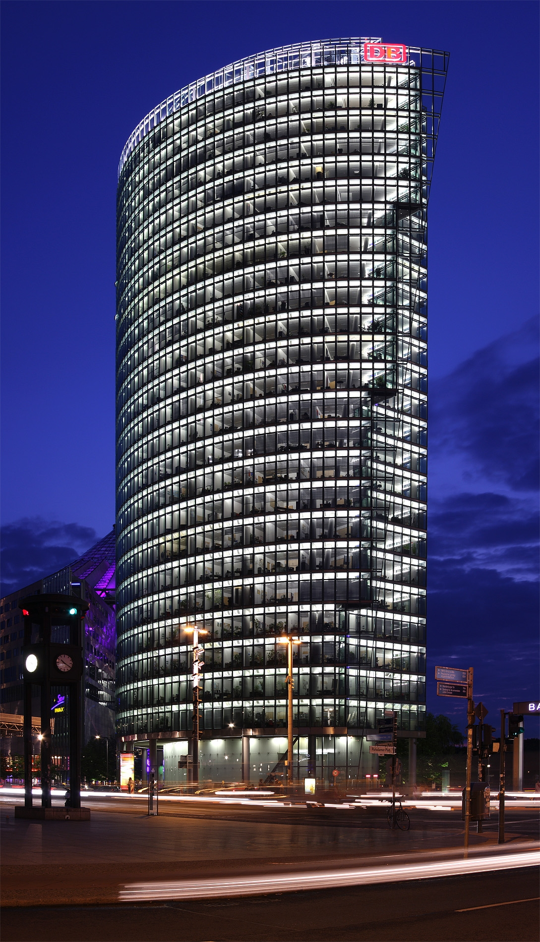 BahnTower (headquarter of the Deutsche Bahn) at the Potsdamer Platz (Potsdam Square) in Berlin